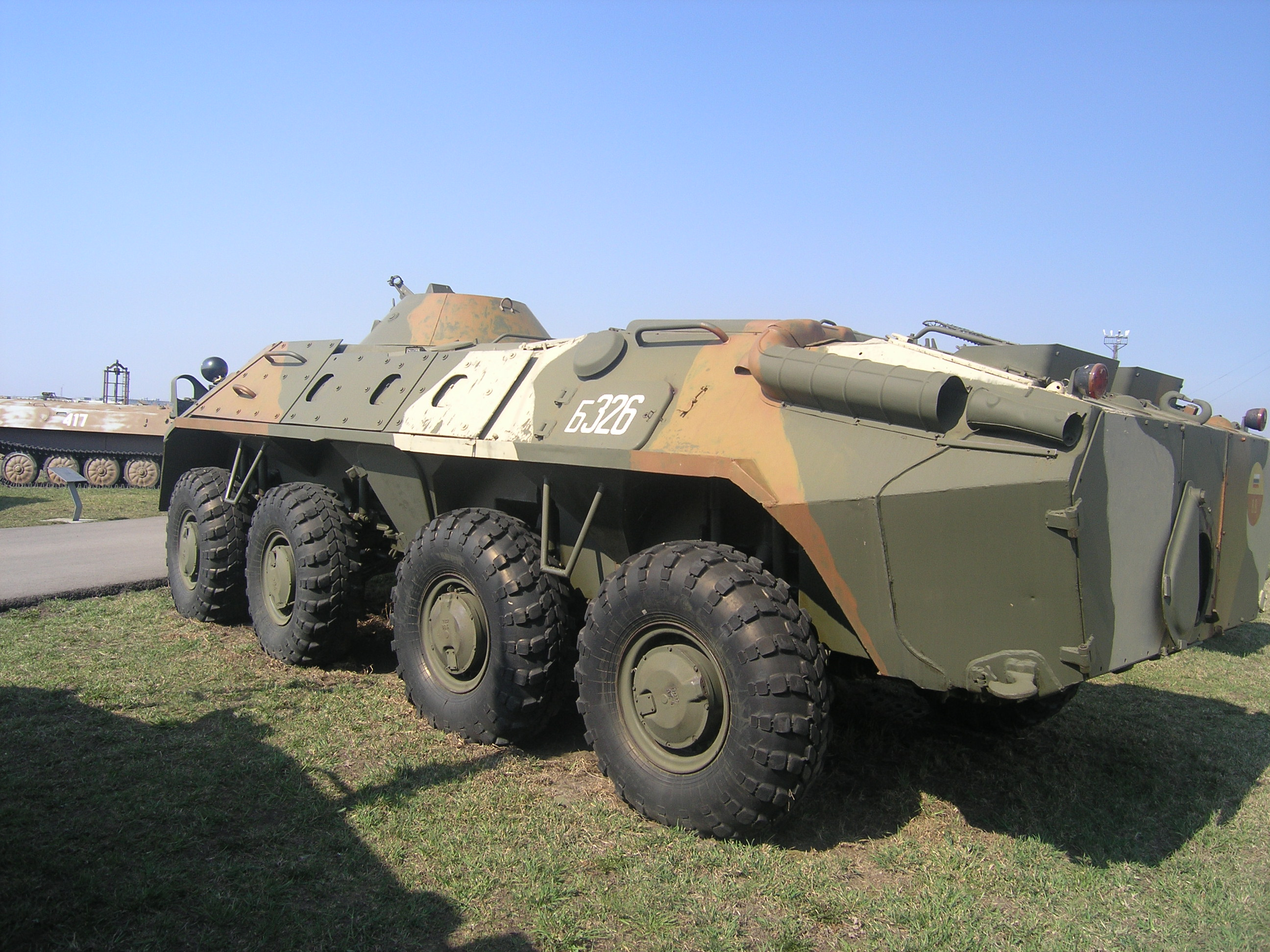 BTR-70, technical museum, Togliatti, Russia